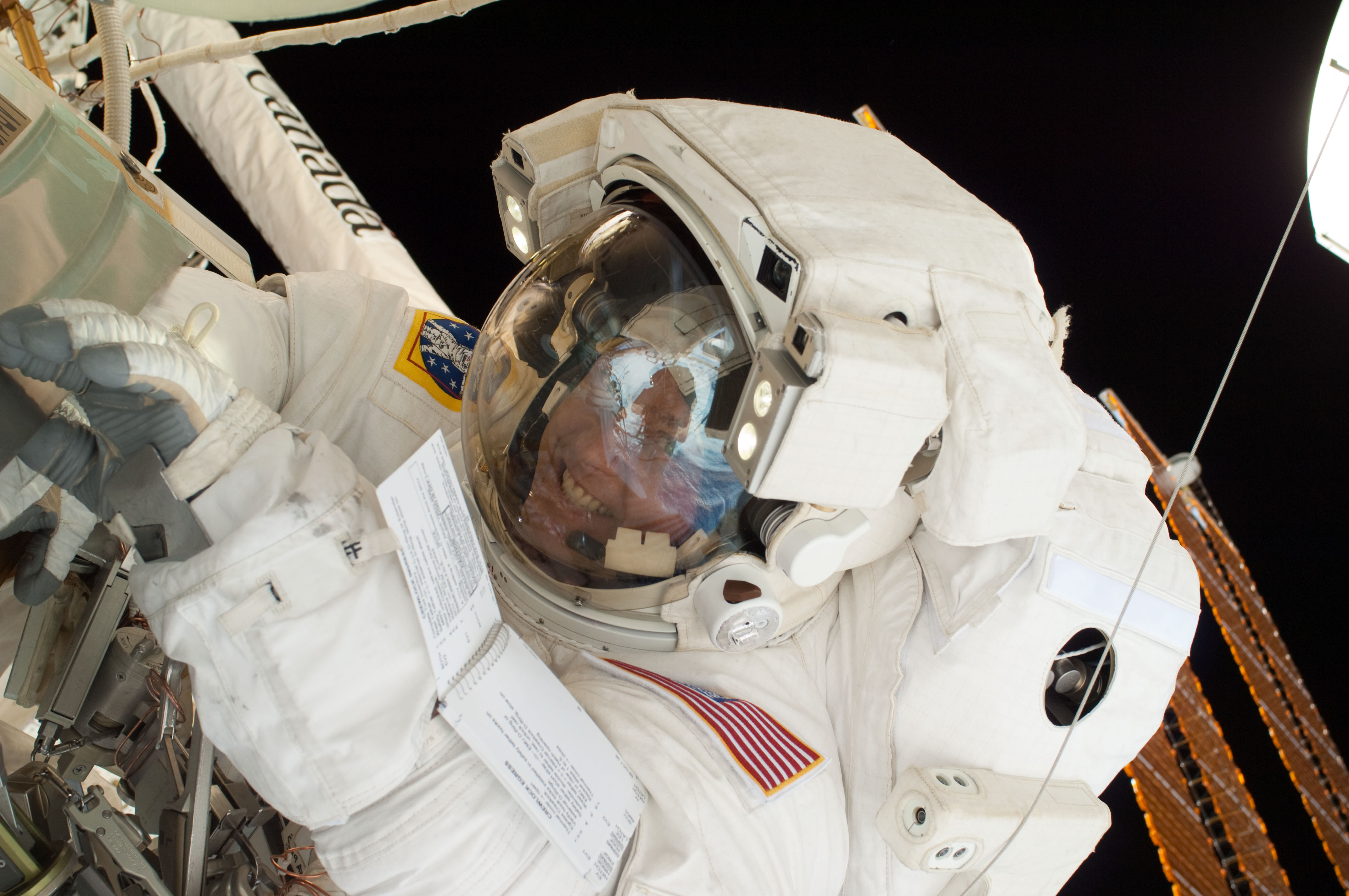 A look into the helmet visor of this astronaut on a spacewalk reveals the easily recognizable smiling countenance of NASA astronaut Michael Fincke. During the STS-134 mission's third spacewalk to perform work on the International Space Station, astronauts Fincke and Andrew Feustel (out of frame), both mission specialists, coordinated their shared activity with NASA astronaut Greg Chamitoff (out of frame), who stayed in communication with the pair and with Mission Control Center in Houston from the shirt sleeve environment inside the ISS.